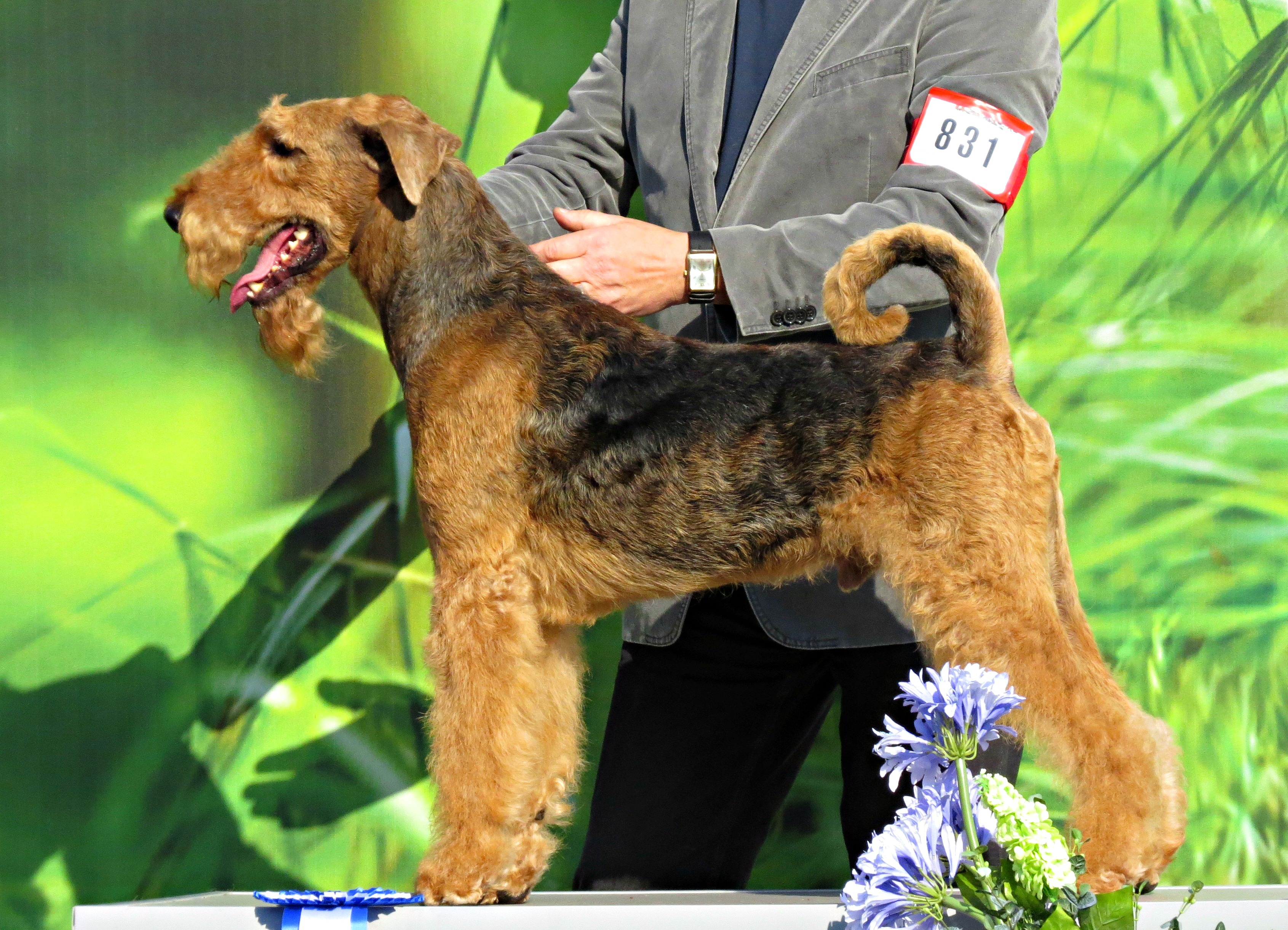 Tallinn, Estonia, duo CACIB 2013, August 17-18